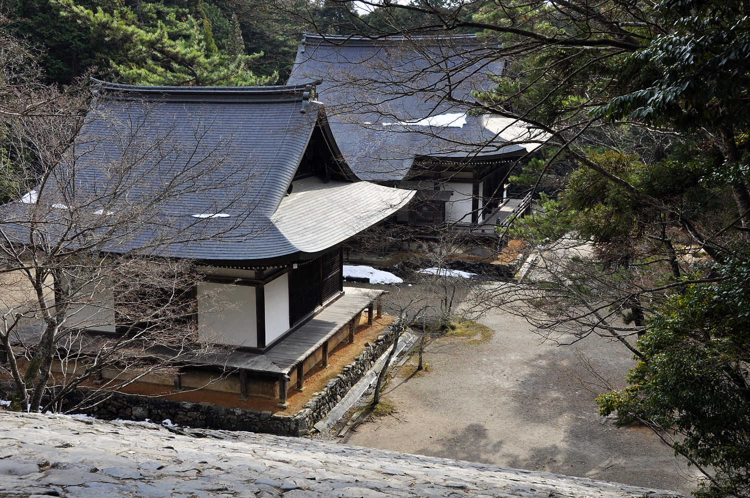 This photograph shows two buildings at Jingo-ji in Kyoto. The near building is the Godai-dō; the far one is the Bishamon-dō. 京都市にある高雄山寺神護寺。（左）五大堂。（右）毘沙門堂。